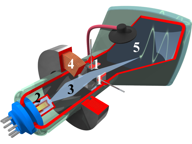 Illustration showing the interior of a cathode-ray tube for use in an oscilloscope. Numbers in the picture indicate: Placche di deflessione Cannone a elettroni Fascio di elettroni Messa a fuoco della bobina Parte interna dello schermo rivestita con fosforo This image was rendered using the Persistence of Vision Raytracer ( See image:CRT_color.png for the scene description used for rendering this image. Created by Søren Peo Pedersen